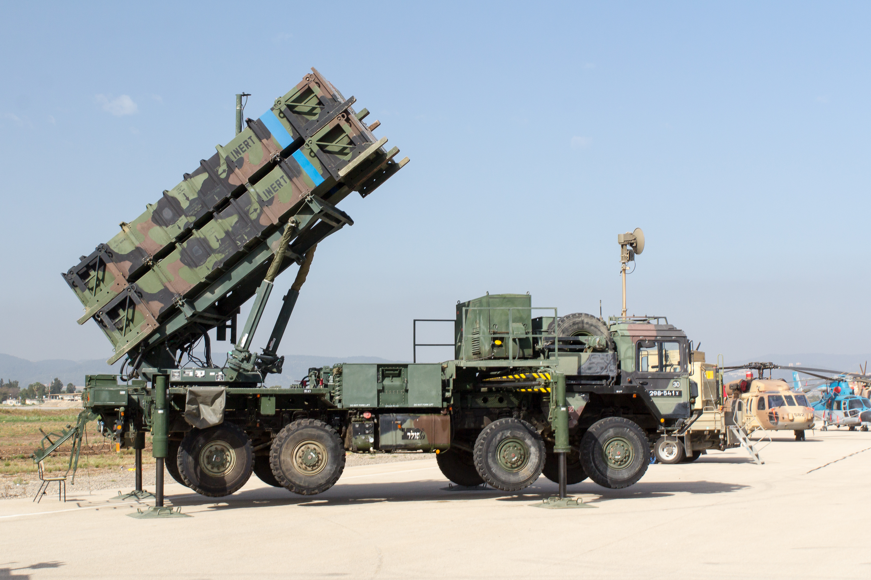 MIM-104 Patriot launcher at the Israeli Air Force exhibition at Ramat David AFB on Israel's 69th Independence Day